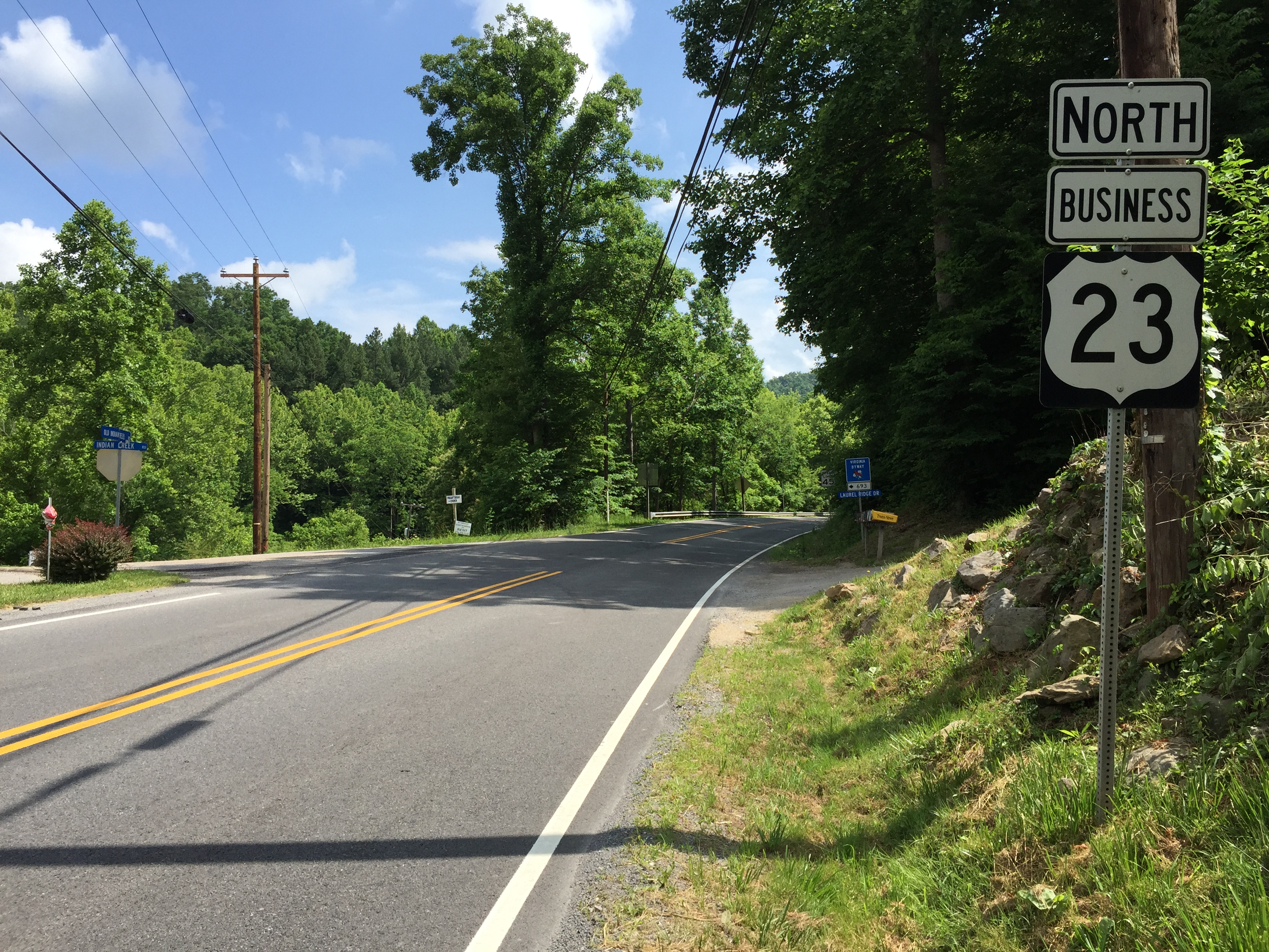 View north along U.S. Route 23 Business (Indian Creek Road) at Laurel Ridge Drive, just south of Pound in Wise County, Virginia